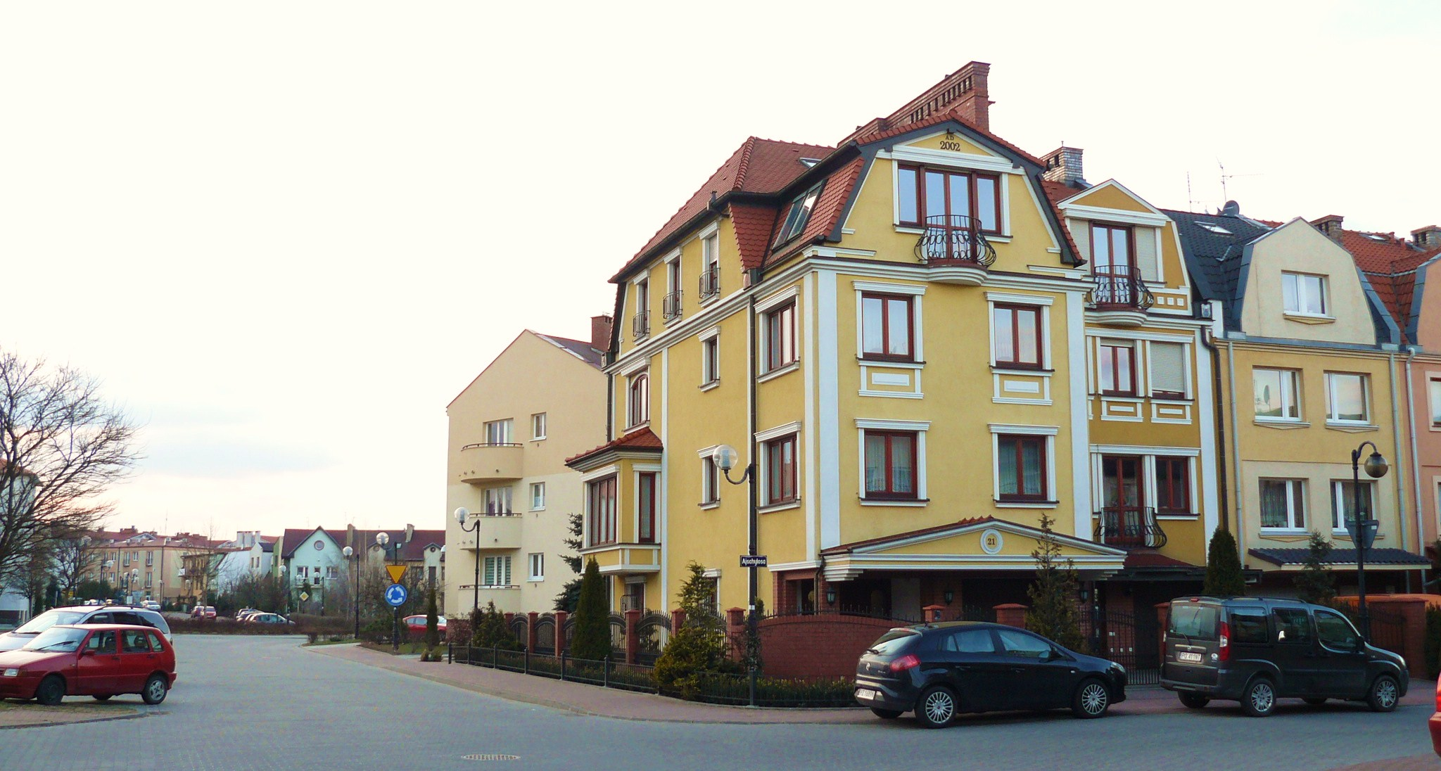 Vergilio Street, Poznan.